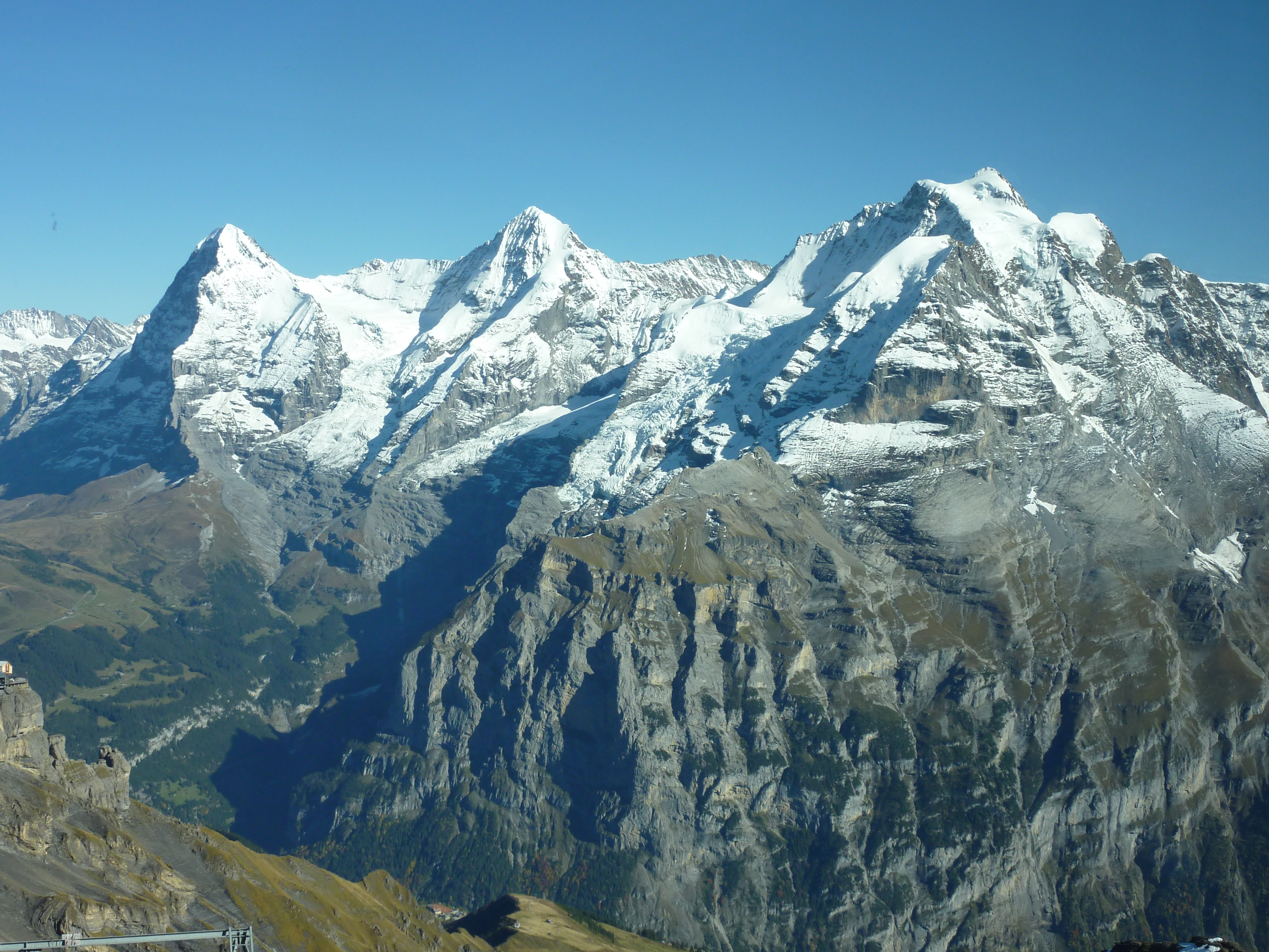 Eiger, Mönch and Jungfrau, view from Schilthorn